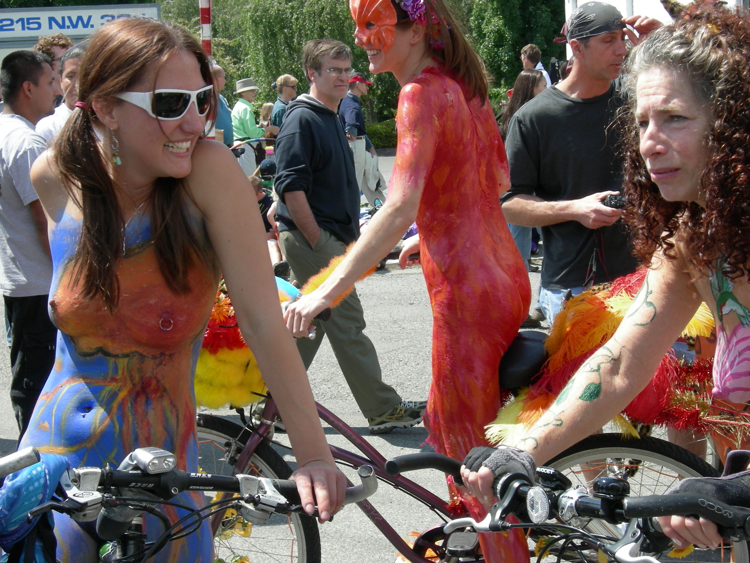 Body-painted naked cyclists preparing for the 2007 Summer Solstice Parade and Pageant, Fremont Fair, Seattle, Washington.